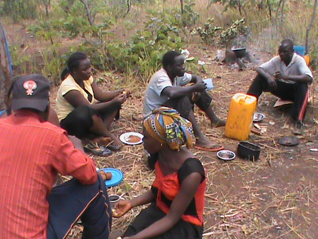 Youth getting breakfast on a farm where they are implementing conserving farming at Zeze village in Kasulu Tanzania. This is an image of food from Tanzania